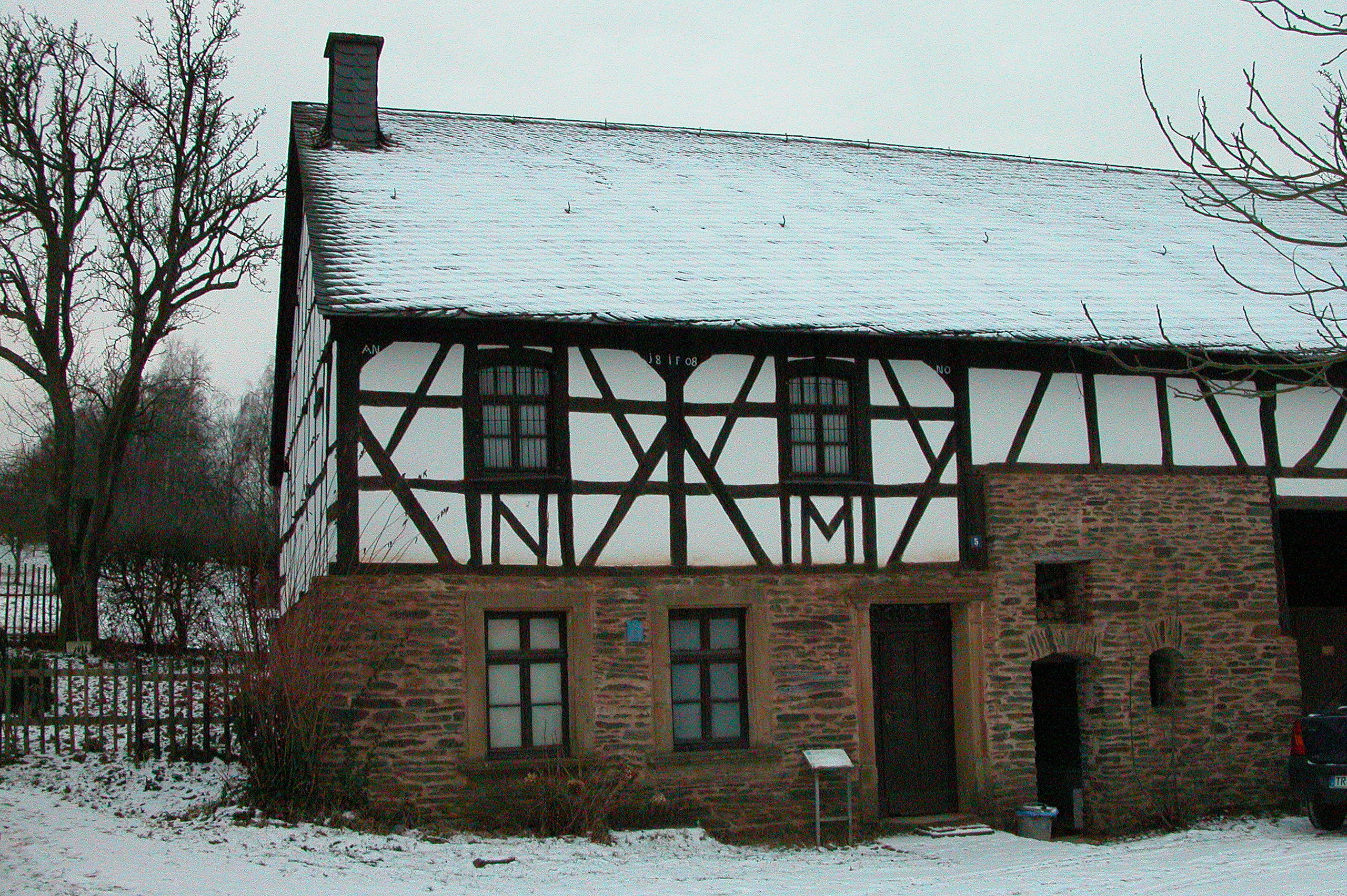 open air museum Roscheider Hof, Konz, Germany, House Molz